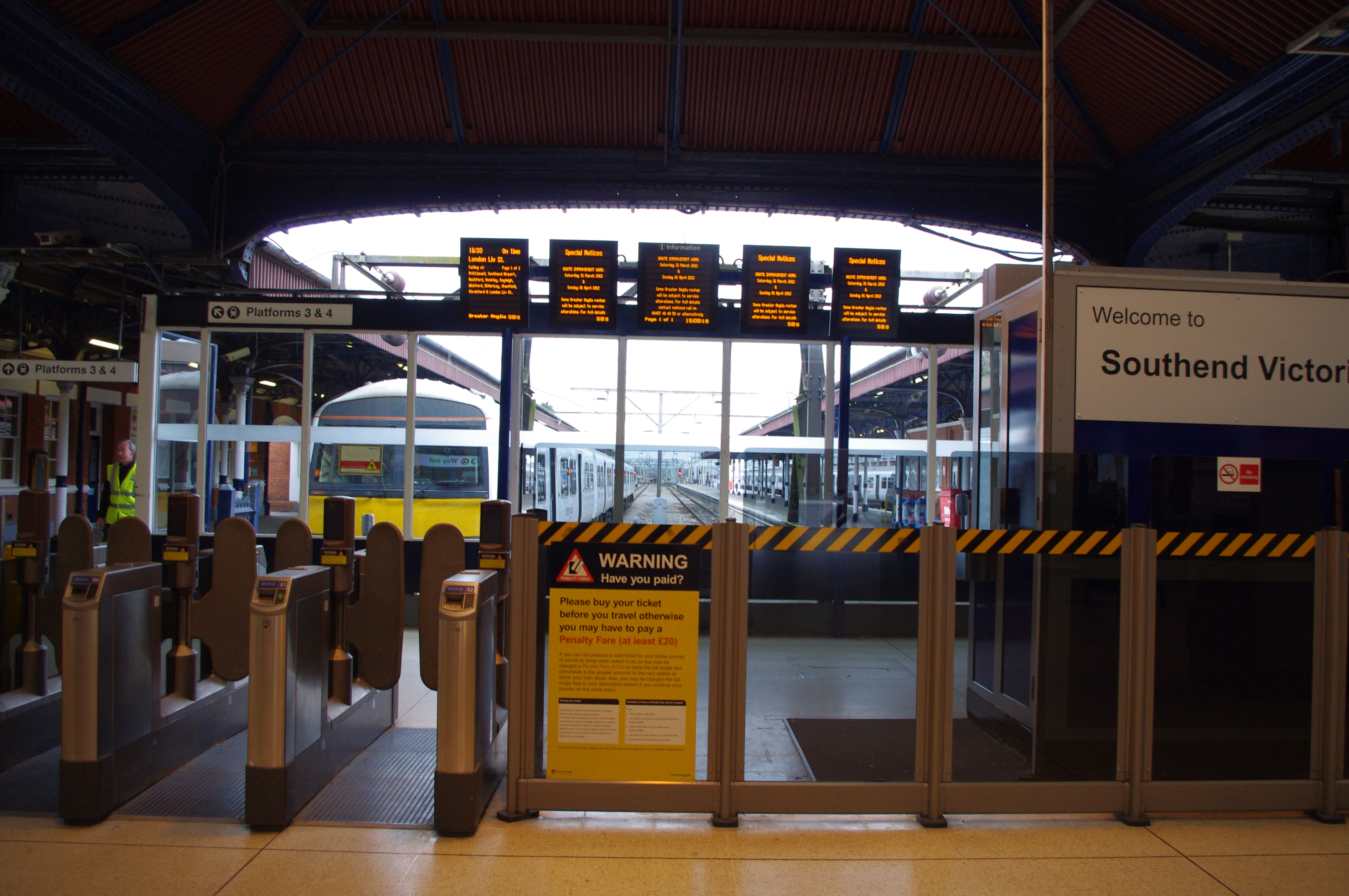 Departure Boards at Southend Victoria